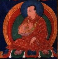 Jangchub Sengge, 13th century Sakya Lama